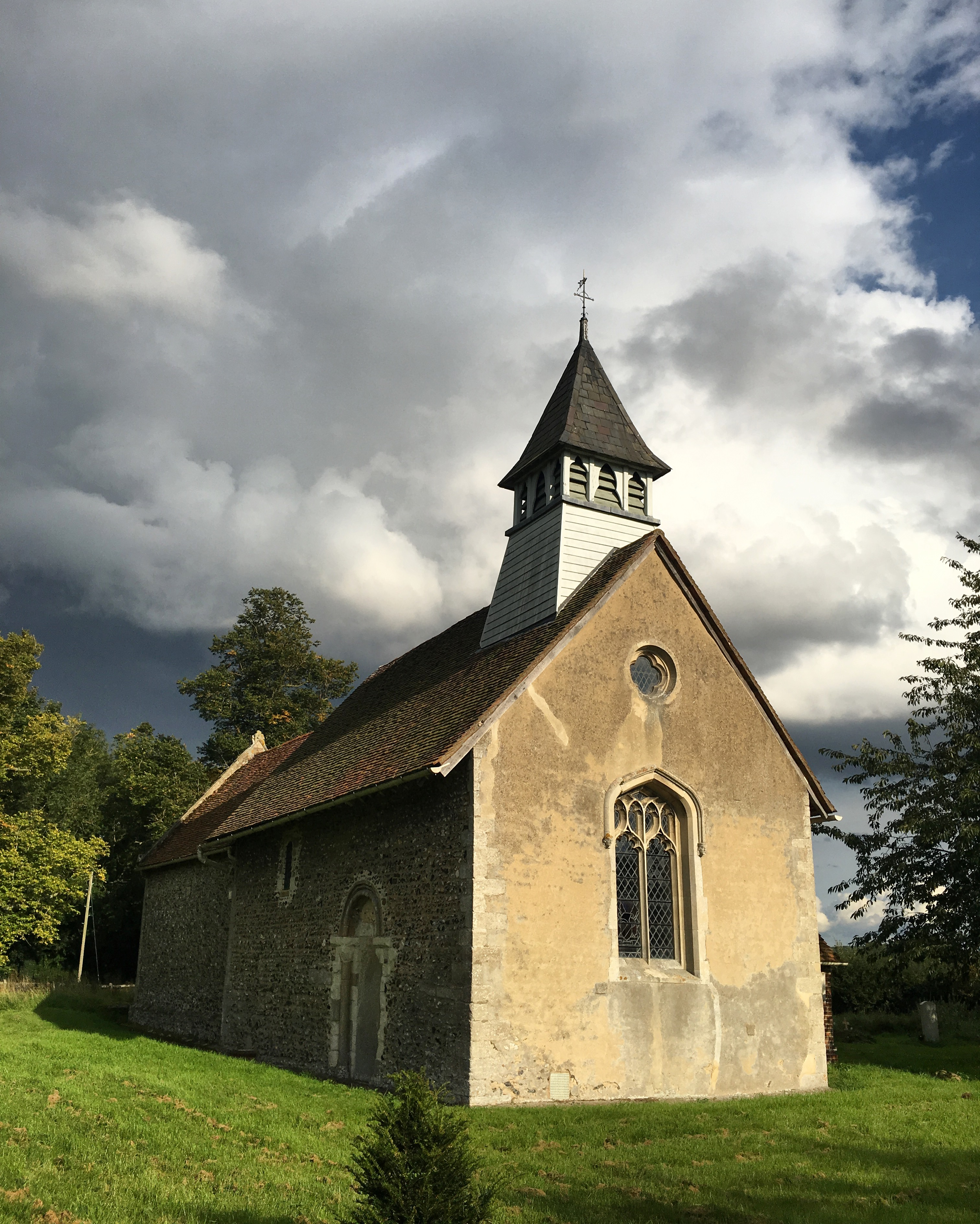 St Mary the Virgin Church, Little Hormead